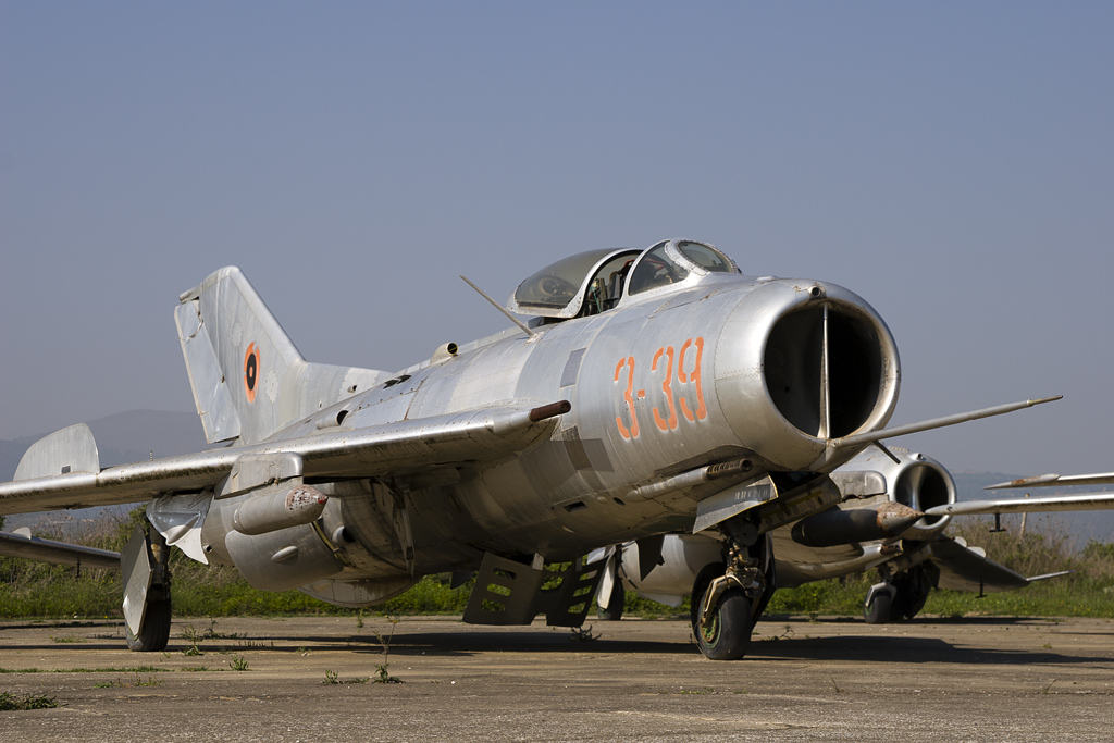 F6 at Kucove.